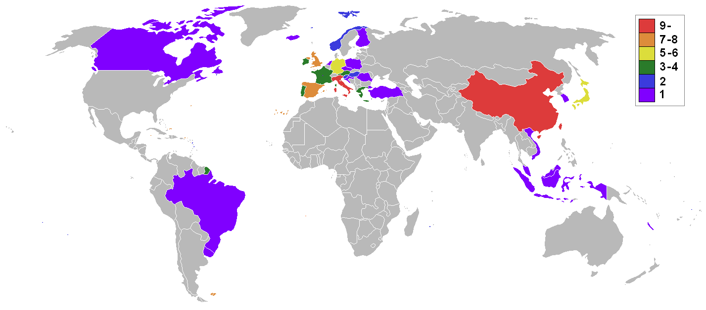 Distribution of GGN Members